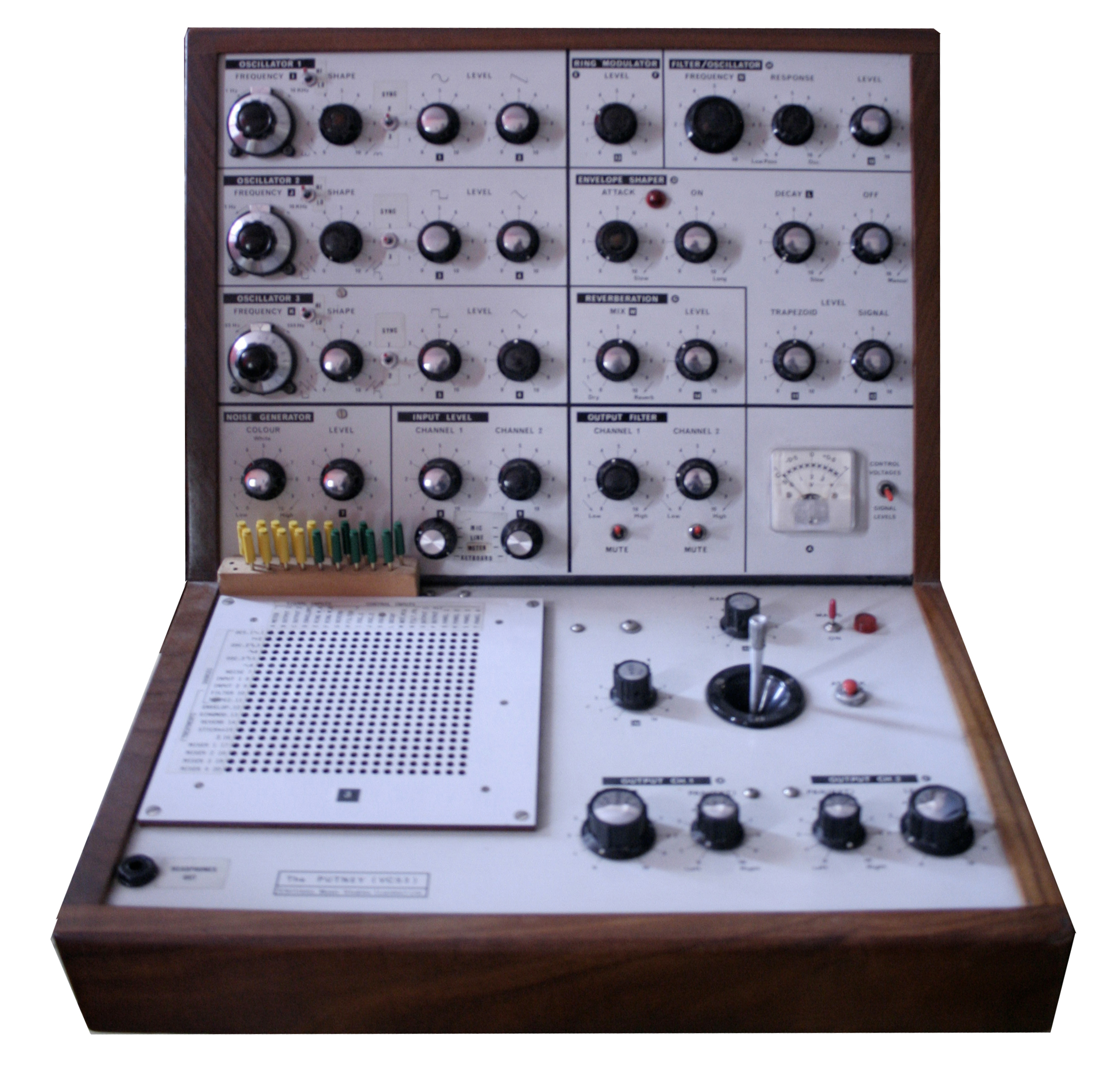 EMS The Putney (VCS 3) Worm Rotterdam, 24th June. I liked this synth the most, because it was a bit more compact and thus for me a bit more understandable (I can imagine what it does, but I dont have the experience to really know how these monster machines work). I especially liked that it had a noise-color, volume envelop decay/attack and response and wave form knobs. These things are normal (especially in digital synth world) but was good to see them in 3d.